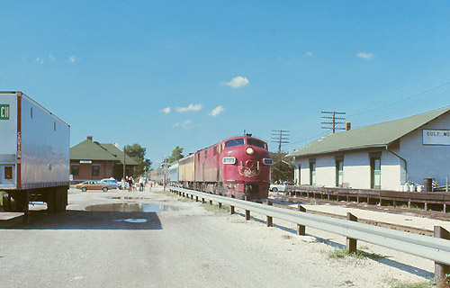 The northbound Abraham Lincon at Lincoln station in September 1972